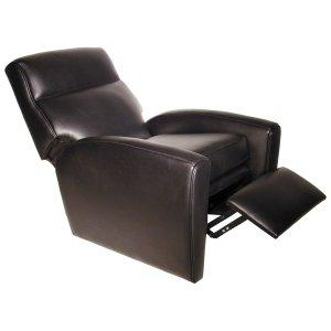 Black recliner (arm chair)